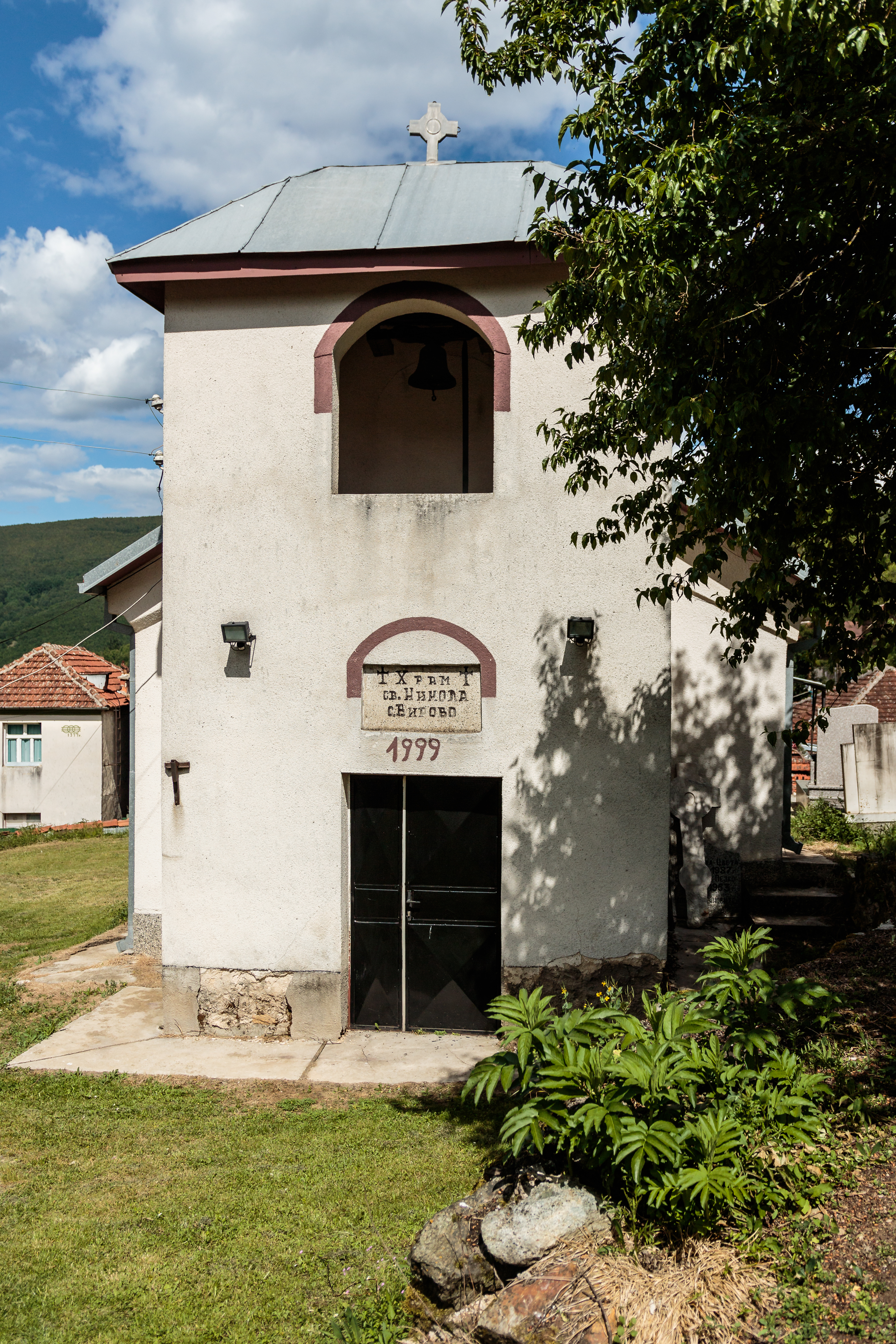 View of the St. Nicholas Church in the village Virovo